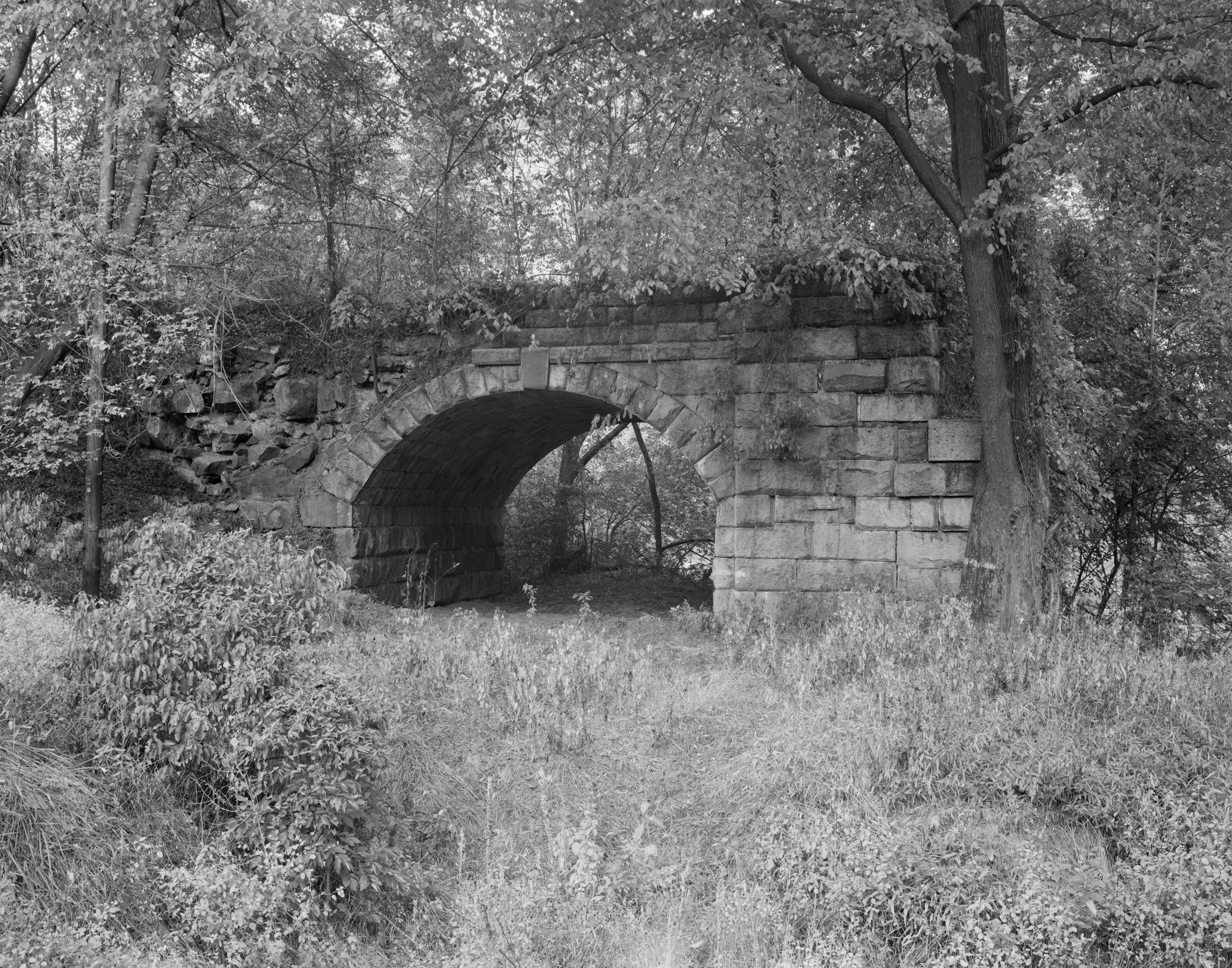 Patterson Viaduct near Ilchester, Maryland, view of west abutment looking north, showing common road arch. Cropped image.